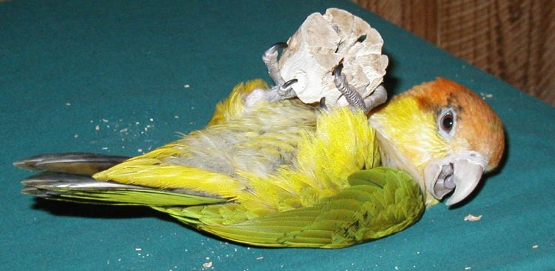 Juvenile white-bellied caique on her back playing with a toy. Photo of Birdie by David Allen.